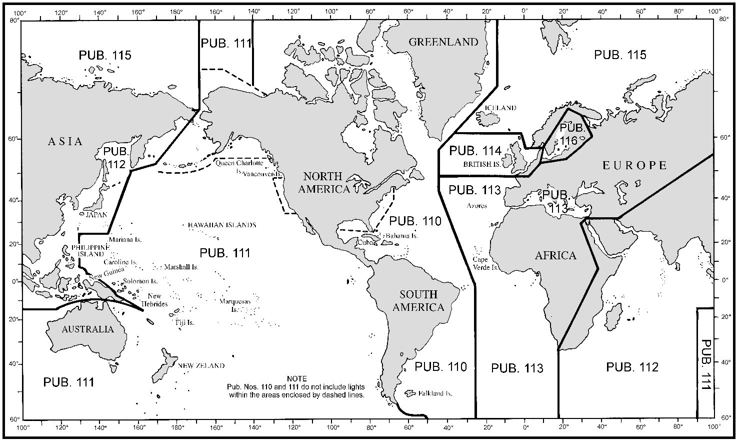 Limits of Light Lists of NGA